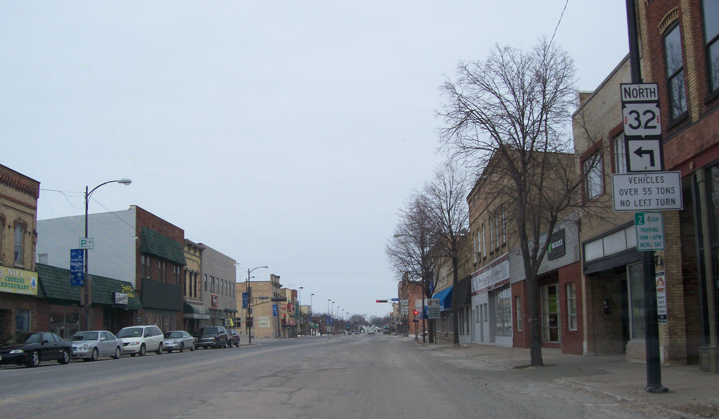 Looking north in downtown De Pere, Wisconsin, USA. Travelling northbound on Wisconsin Highway 57 / 32. Taken February 11, 2007 by myself. Cropped from original.